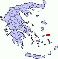 Map of island Samos in Greece